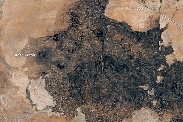 Aden Crater is one of Potrillo’s shield volcanoes, formed by a series of effusive eruptions that ended about 16,000 years ago. The lava seeped out over time, and the flows stacked on top of each other, creating a gently sloping cone. The crater became famous in the late 1920s after a fossilized ground sloth, later determined to be about 11,000 years old, was discovered in a lava tube along the crater rim. The presence of pits and lava tubes is the reason that the RIS4E team chose to work at Aden. Lava tubes on other planets could preserve unique rock types and environmental conditions, and perhaps even pristine samples that would be ideal for scientific study. In addition, lava tubes could be used to protect future astronauts, their food, and hardware from radiation and harsh environments. RIS4E was designed to address how to determine which holes in the ground are just pits, which might lead to safer environments, and which ones can be safely explored.